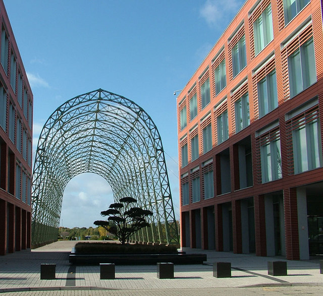 Historic temporary balloon shed frames Original frames for a temporary balloon shed from the very earliest days of flying have been erected as just a nice place for staff to rest or meet at Farnborough Business Park (part of Farnborough Airport.)